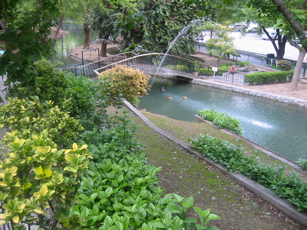 Aviary at Planetario Alfa, Monterrey, Nuevo Leon, Mexico